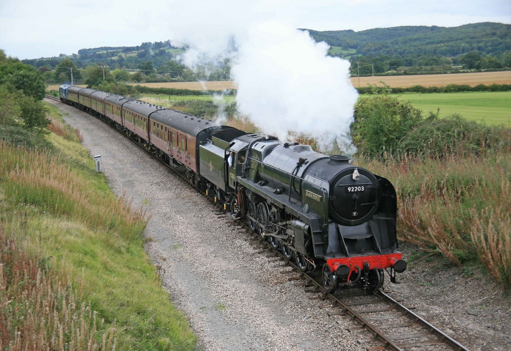 Preserved steam loco Black Prince heads south on the preserved Gloucestershire & Warwickshire Railway nr the site of Hayles Abbey Halt